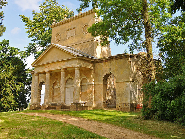 The Temple of Friendship, Stowe Built in 1739, damaged by fire in 1840 and has been a ruin ever since.